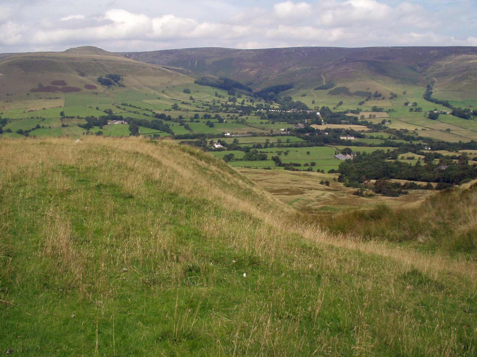 The plateau of Kinder Scout, seen from the south near Mam Tor. Taken on the 3rd of September 2004 by Stemonitis.